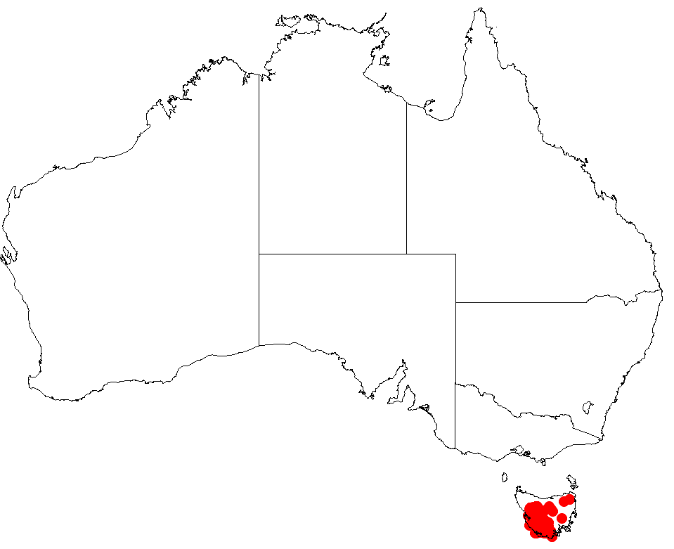 Persoonia gunnii Occurrence data downloaded from Australasian Virtual Herbarium on 30 October 2018 from